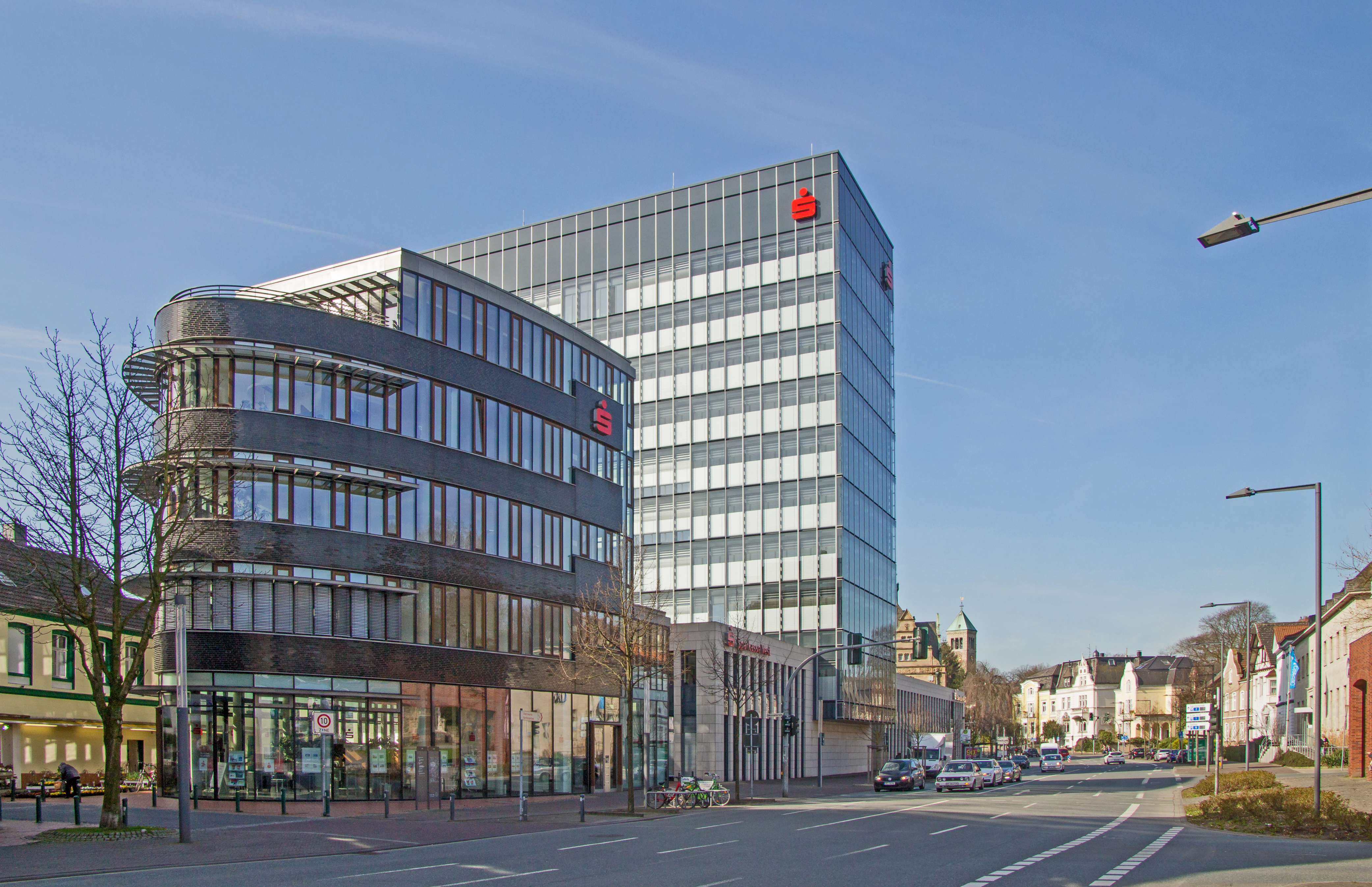 headquarters building of Sparkasse Vest - Recklinghausen, North Rhine-Westphalia, Germany